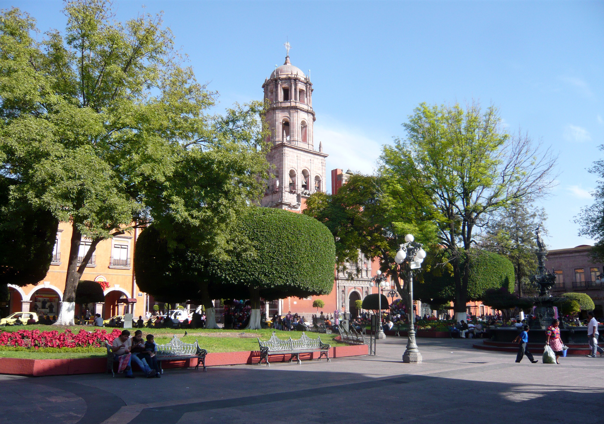 Downtown Santiago de Querétaro